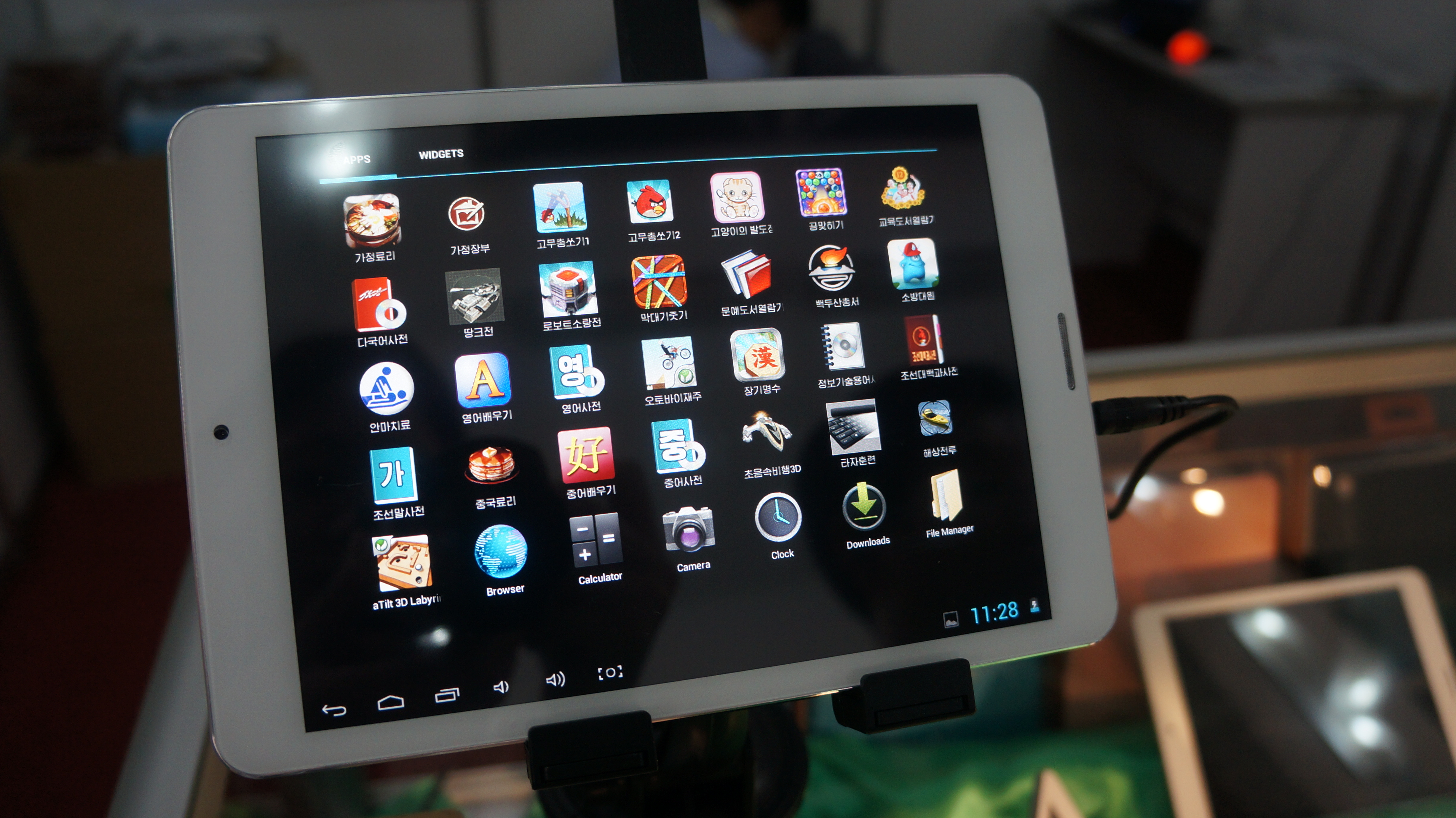 NOUL brand tablet, looks like the mini iPad (Three Revolutions Exhibition Hall from September 22 - 27, 2014)